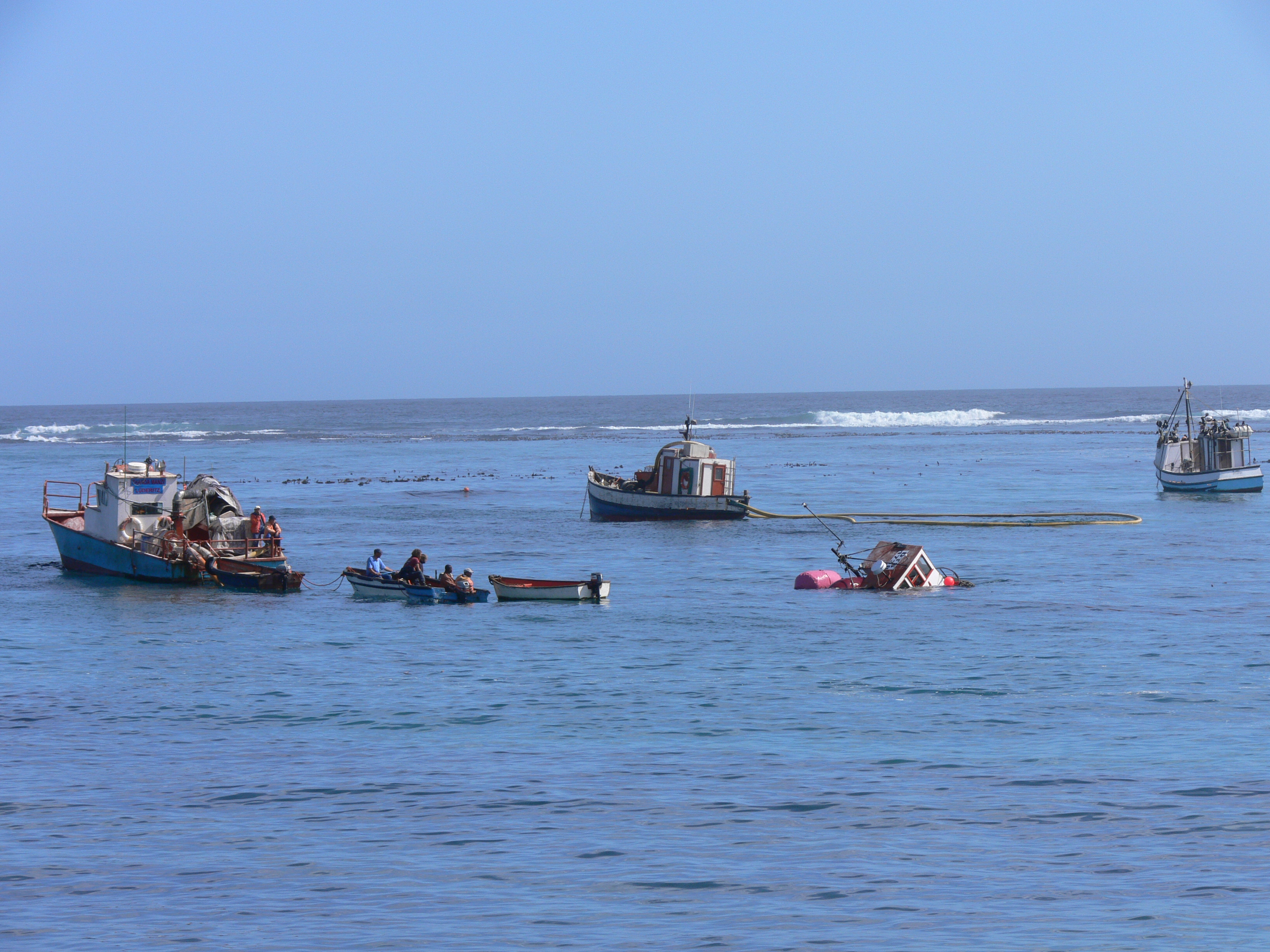 Fishing vessels and diamond prospectors in Port Nolloth harbour, Northern Cape, South Africa